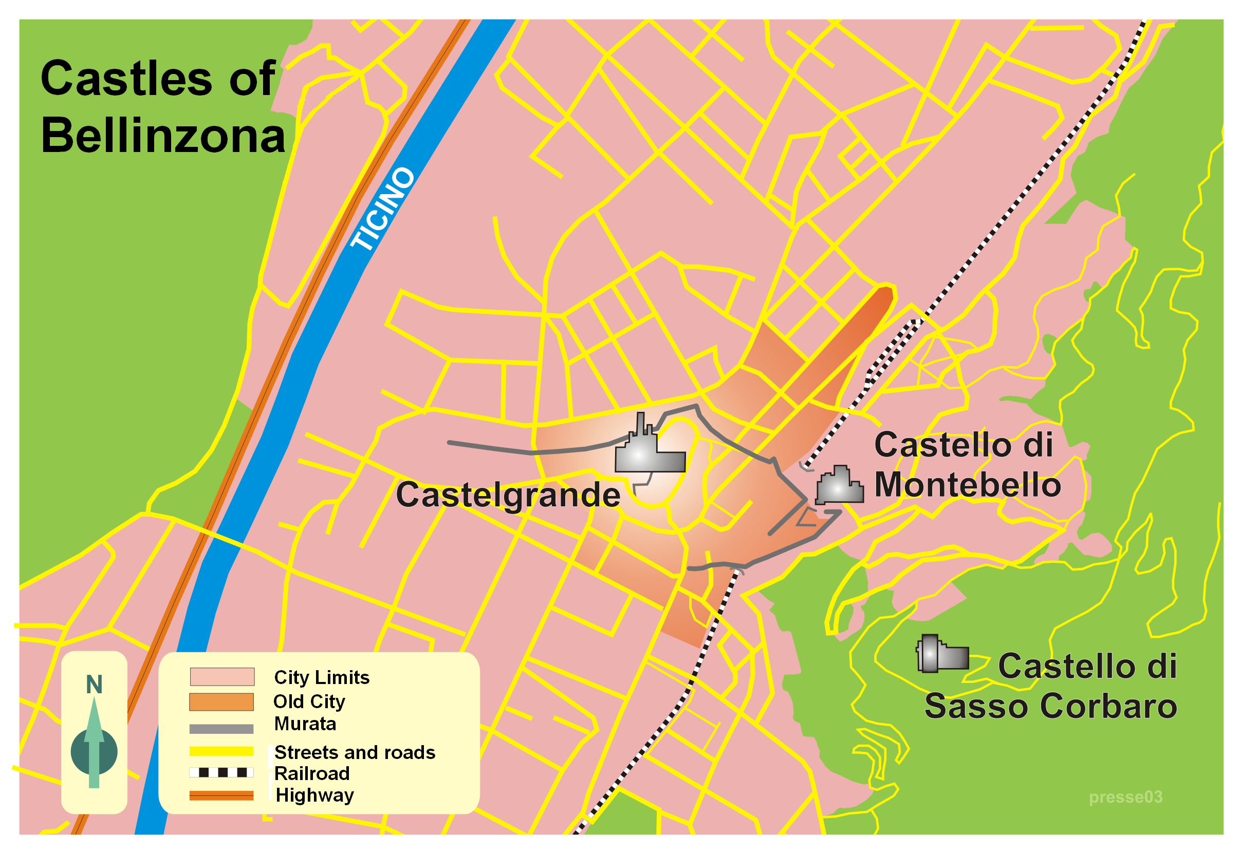 Location of the three castles in Bellinzona, Tessin, Switzerland